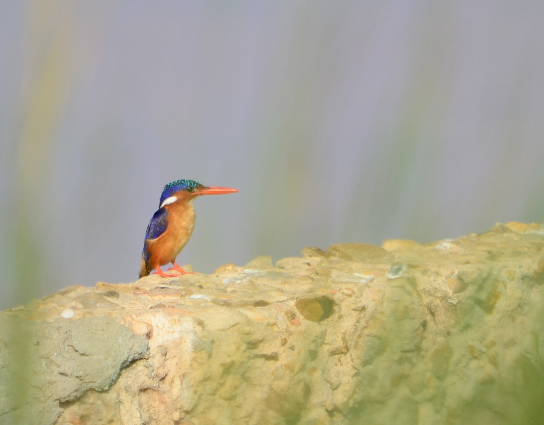 Malachite Kingsfisher (Alcedo cristada)